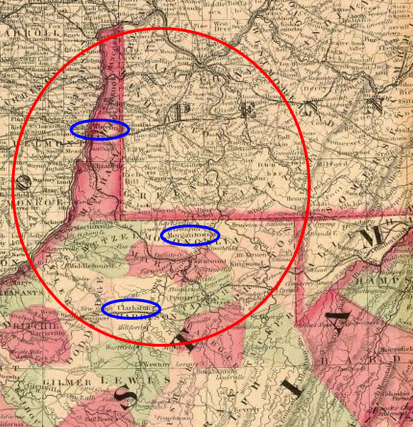 The map shows the area in northern West Virginia that was the prime recruiting region for the 1st (West) Virginia Cavalry. Wheeling, Morgantown, and Clarksburg have been circled because they were important cities for the organization of the regiment. Information based on a report from the George Tyler Moore Center for the Study of the Civil War at Sheperd University in West Virginia.